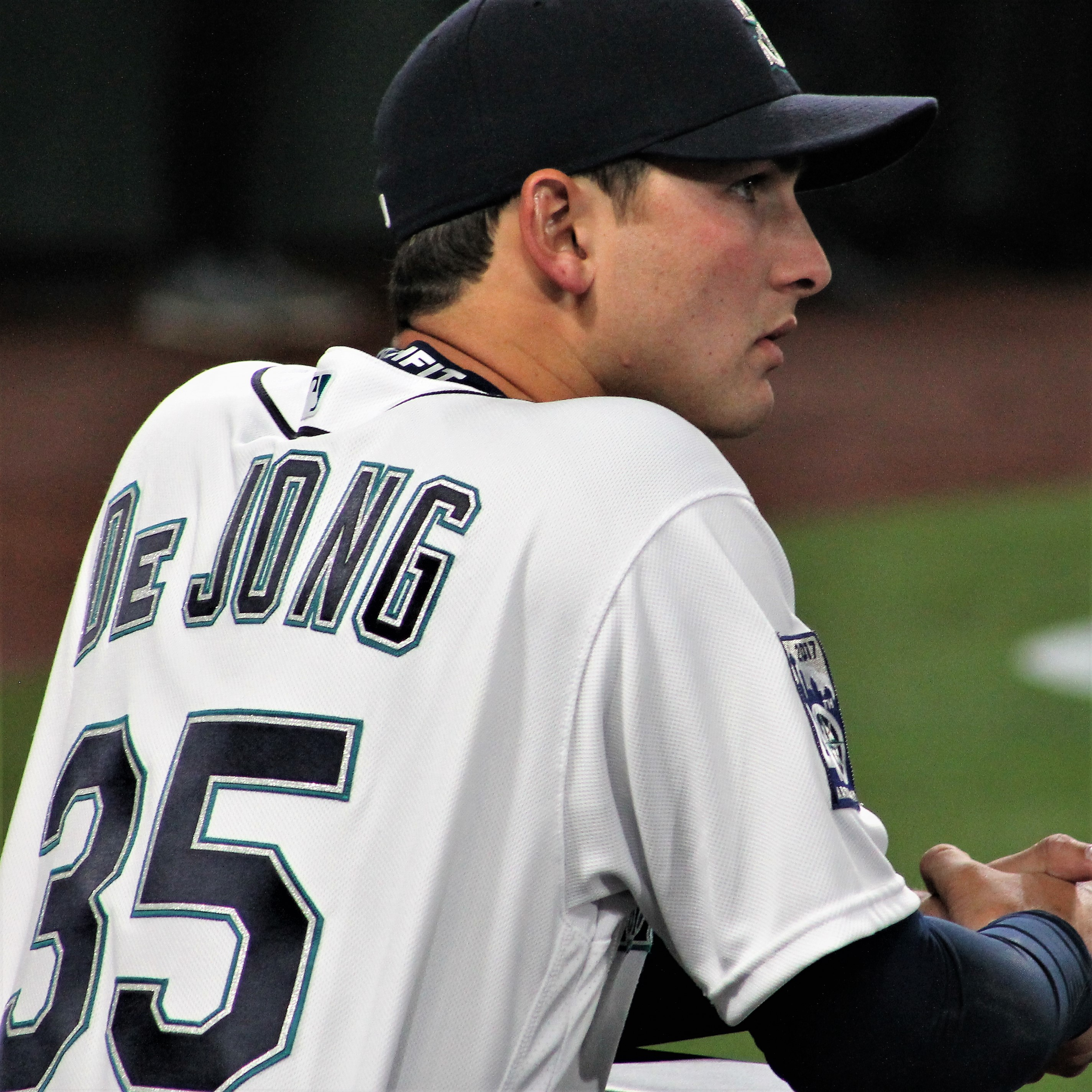 Professional baseball player Chase De Jong at a May 2017 game in Seattle.